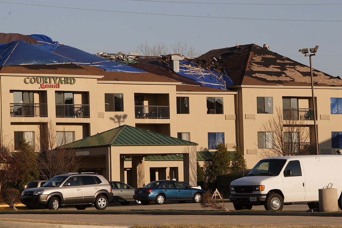 Courtyard by Marriott tornado damage, Springfield, Illinois